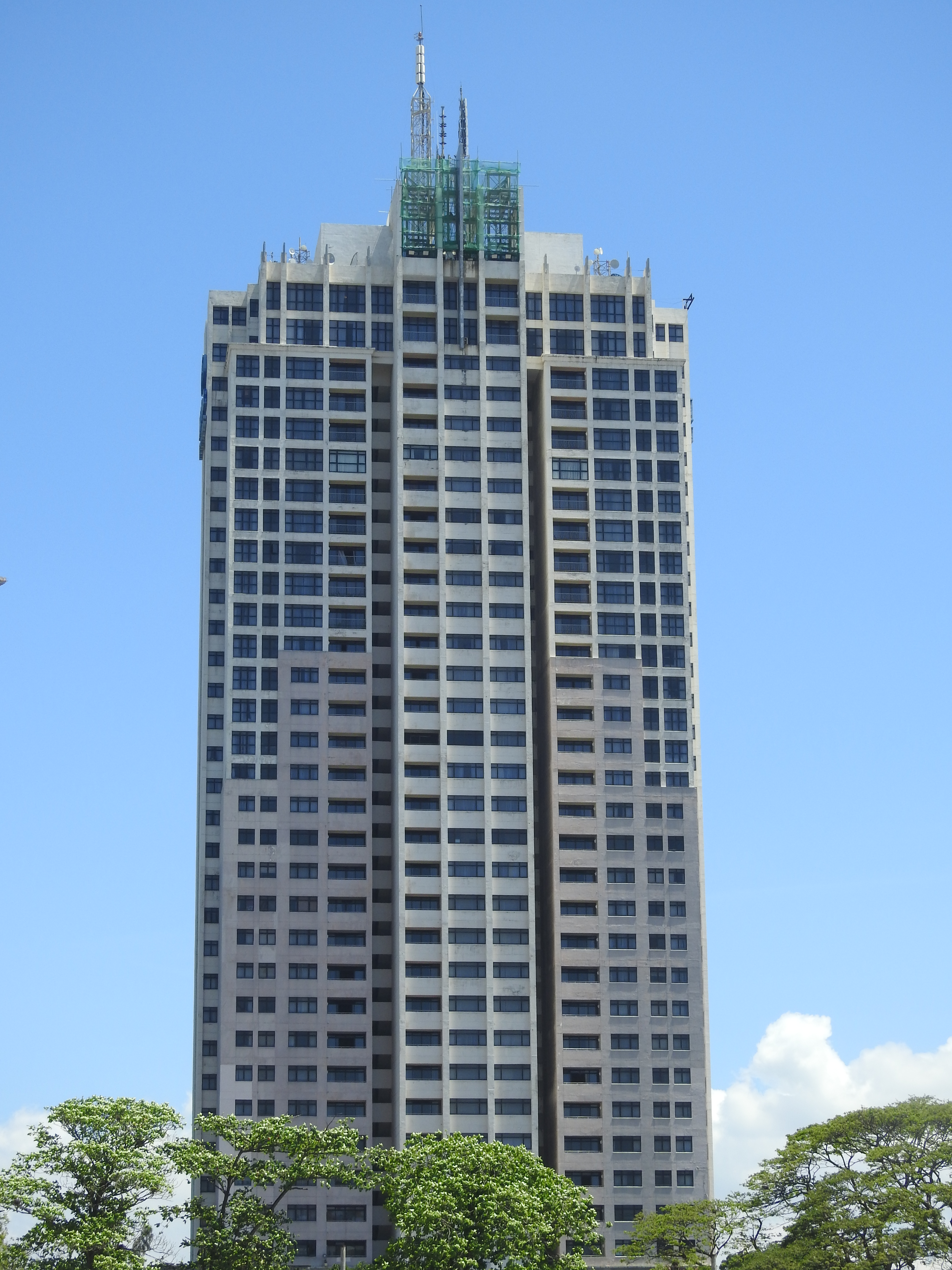 Photos of current/future skyscrapers (and its surroundings) in Colombo, taken by User:Rehman and User:Azeez as part of a photowalk project by Wikimedia Community User Group Sri Lanka. The photowalk covered most of the tallest structures in Colombo that are either completed or under construction. Further information on the subject(s) of the photograph can be found in the category/ies of this file.